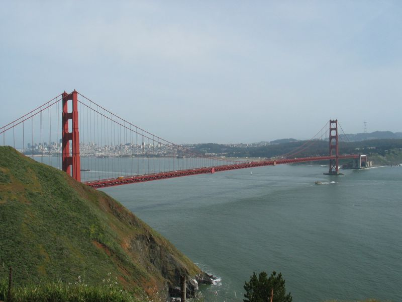 Golden Gate Bridge in San Francisco in the background